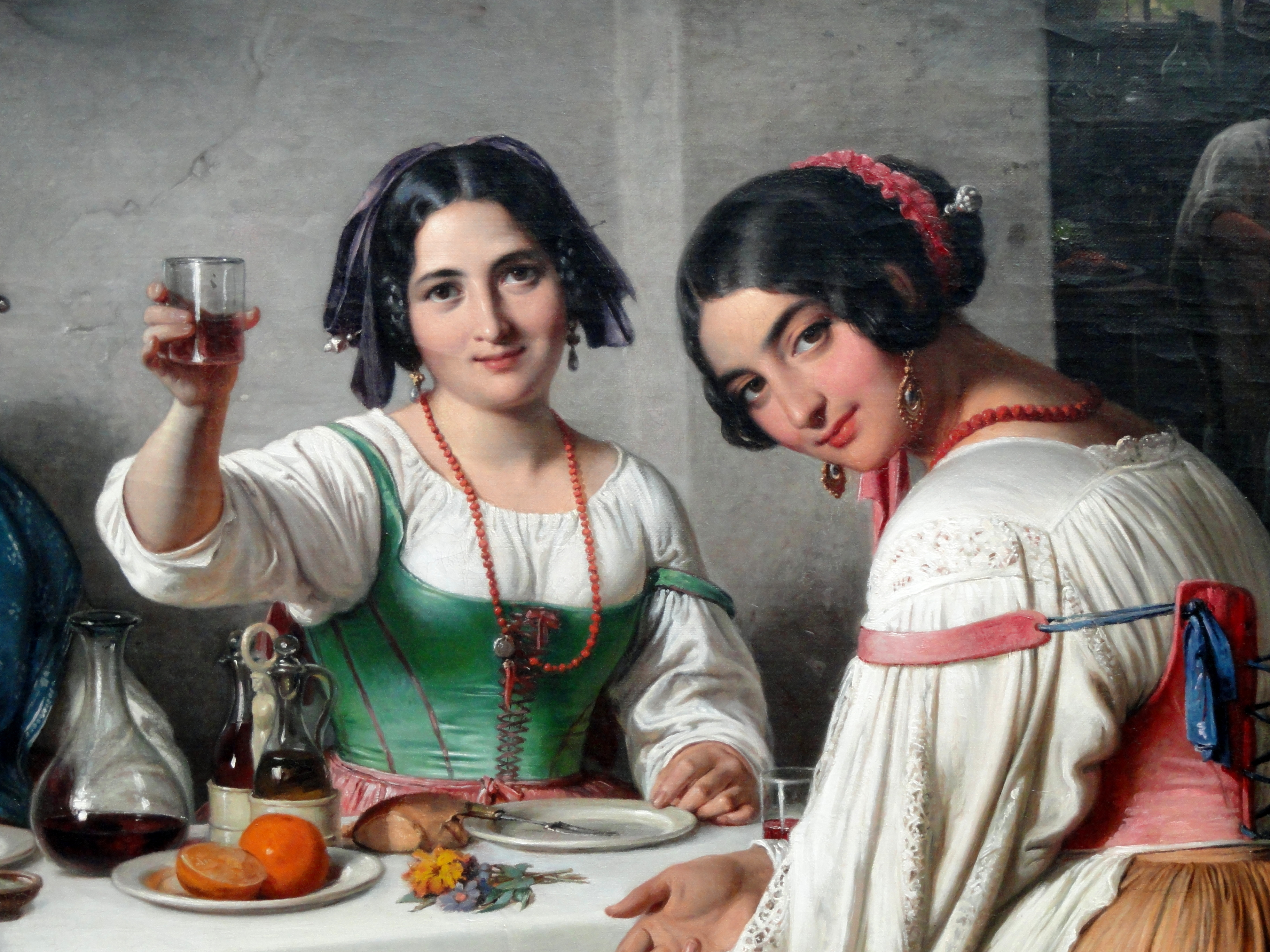 Painting exhibited in the Ny Carlsberg Glyptotek, Dantes Plads 7, Copenhagen, Denmark. This artwork is now in the public domain because the artist died more than 70 years ago.